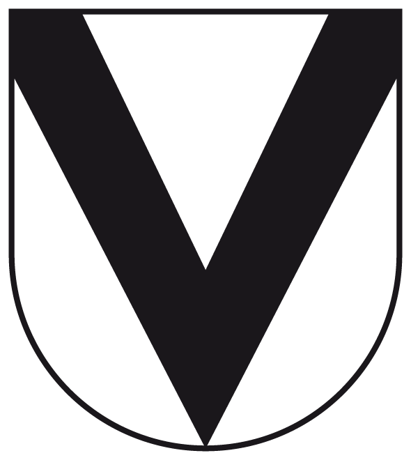 Coat of Arms of Vardegötzen, Part of Pattensen